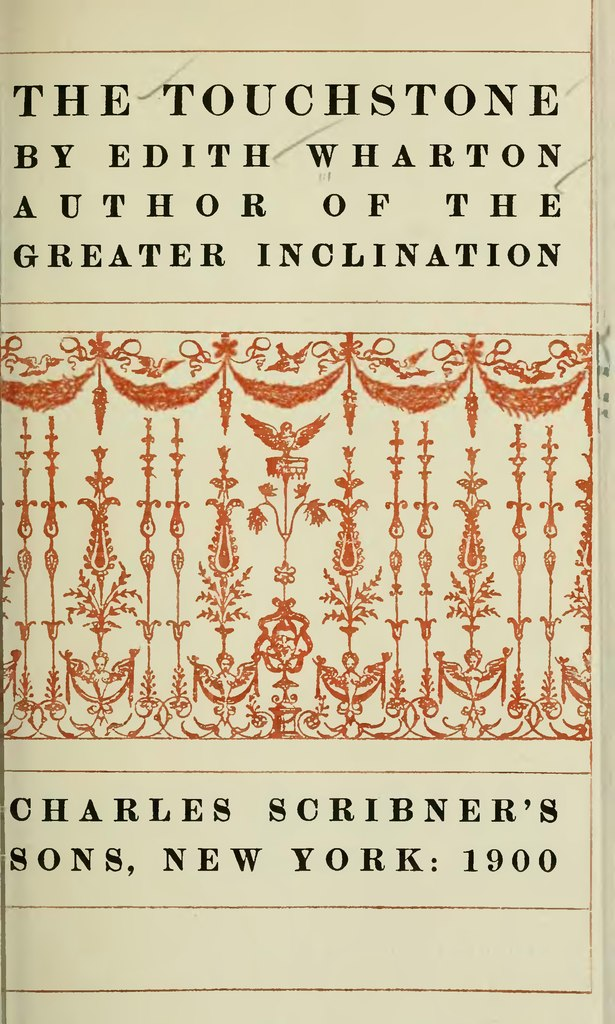 Title page from the first edition of The Touchstone, a novella by Edith Wharton, published 1900.